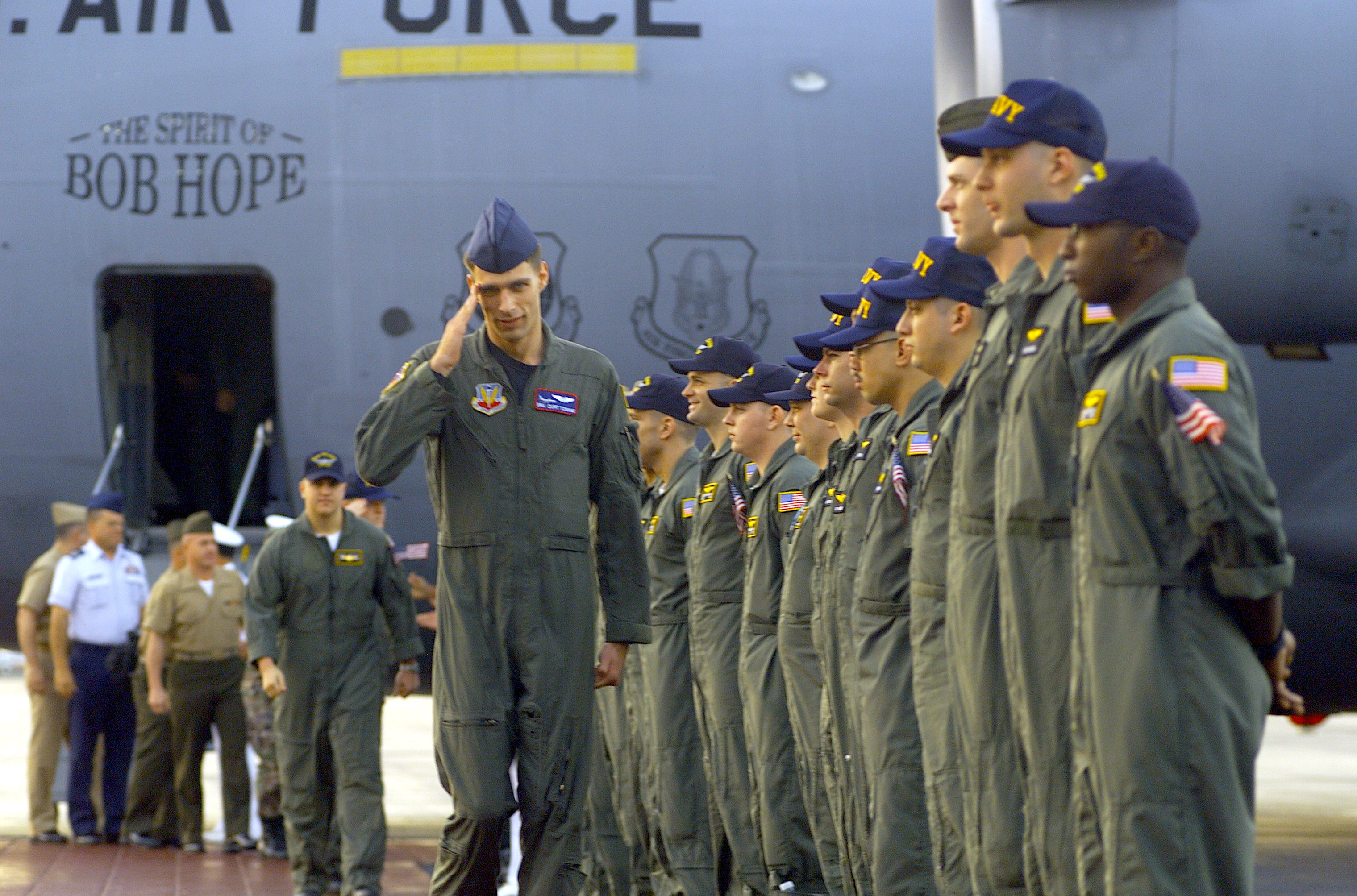 Air Force Senior Airman Curtis Towne salutes as he returns home from Hainan on April 12, 2001. He was a crewmember on the U.S. Navy EP-3 aircraft that was involved in an accident with a Chinese F-8 aircraft on April 1, 2001.